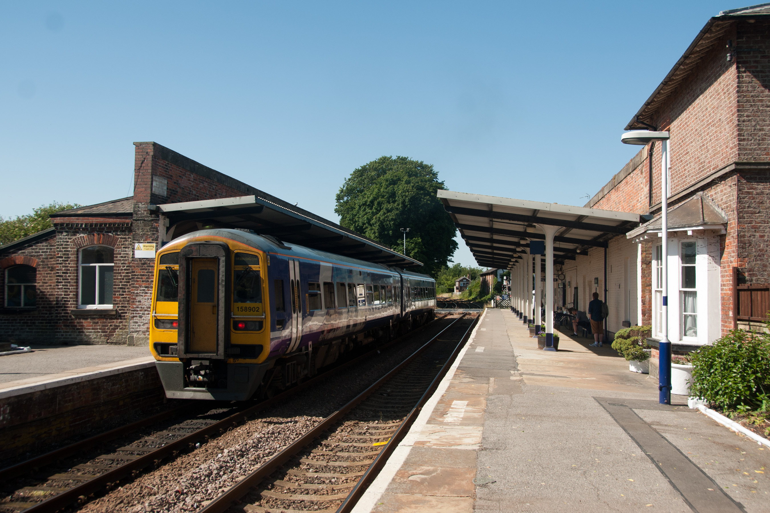 Northern Class 158, no. 158902 pauses at Driffield station with a service from Bridlington to Hull